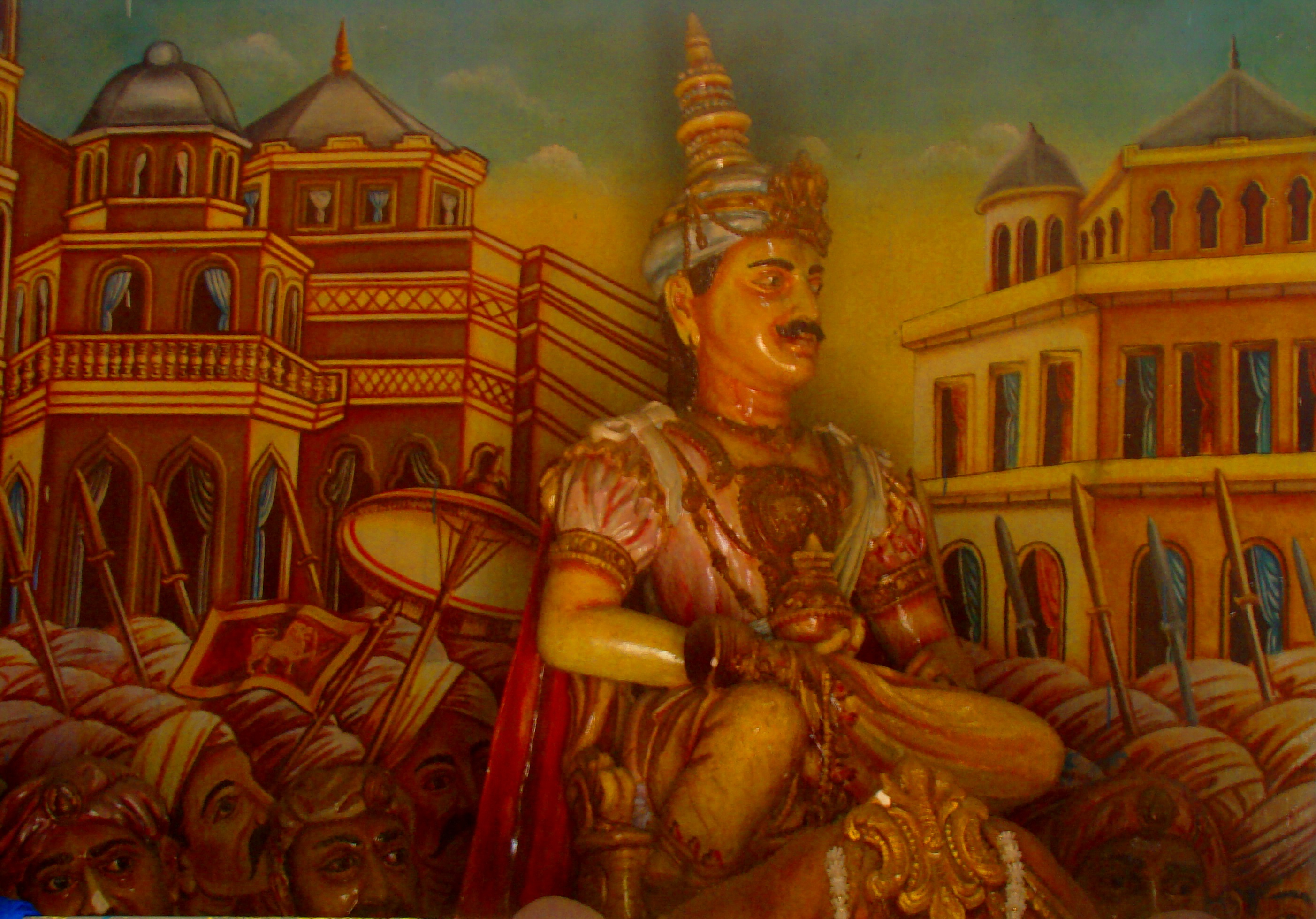 KING DUTUGEMUNU (161 BC – 137 BC) Prince Gamini was born to a royal family in southern Lanka. His parents were King Kakavanna Tissa and Vihara Maha Devi.prince himself being dubbed Dutthagamani, meaning "disobedient". After his death, he was referred to as Dharma Gamini ("righteous Gamini"), but it is as Duttha Gamini or Dutugemunu that he is known to posterity.